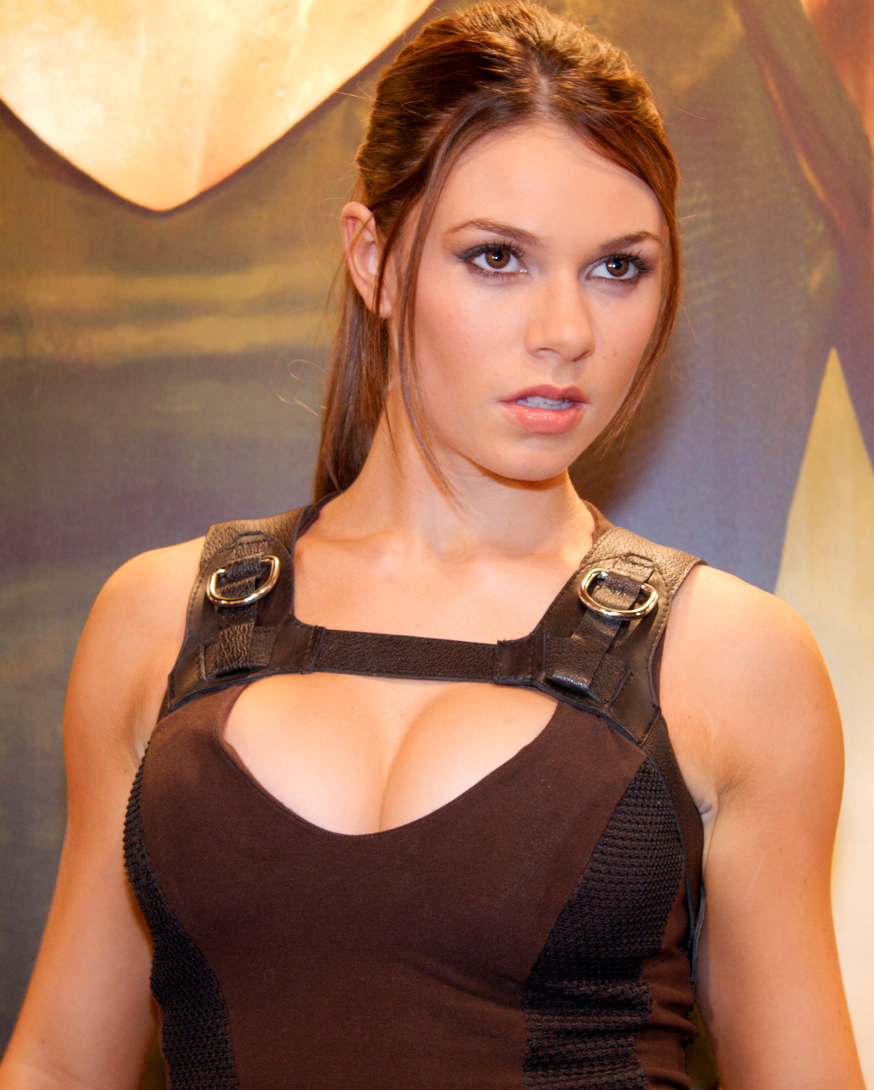 Alison Carroll, the official Lara Croft model for Tomb Raider: Underworld at Festival du jeu vidéo 2008 (Paris, France)